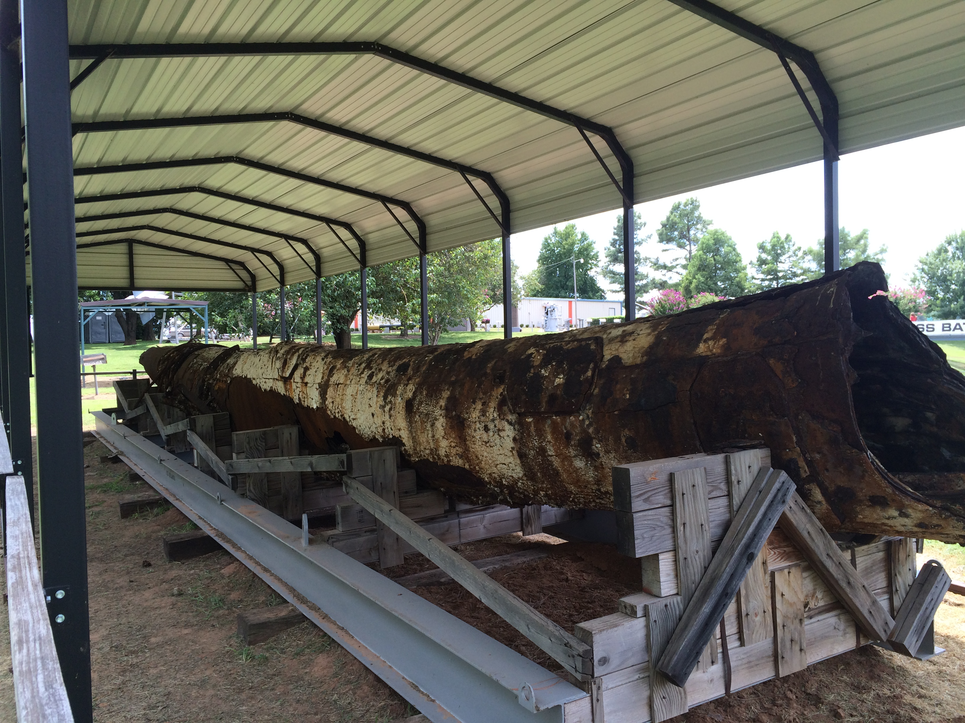 The mast of USS Oklahoma (BB-37), located in War Memorial Park in Muskogee, Oklahoma. The white material are barnacles that attached themselves to the structure while it was submerged in Pearl Harbor.